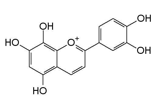 Chemical structure of columnidin